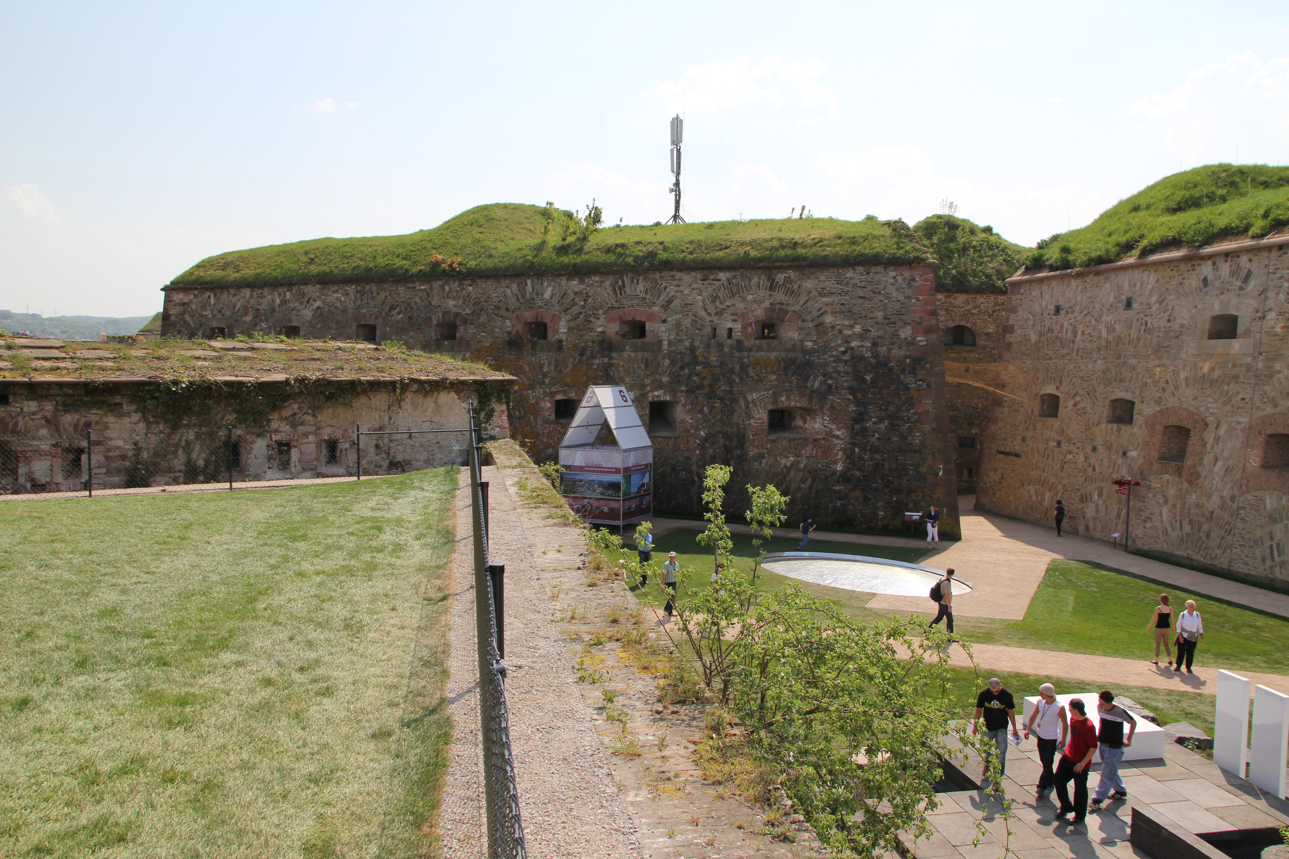 Federal Horticultural Show 2011 in Koblenz - Ehrenbreitstein Fortress